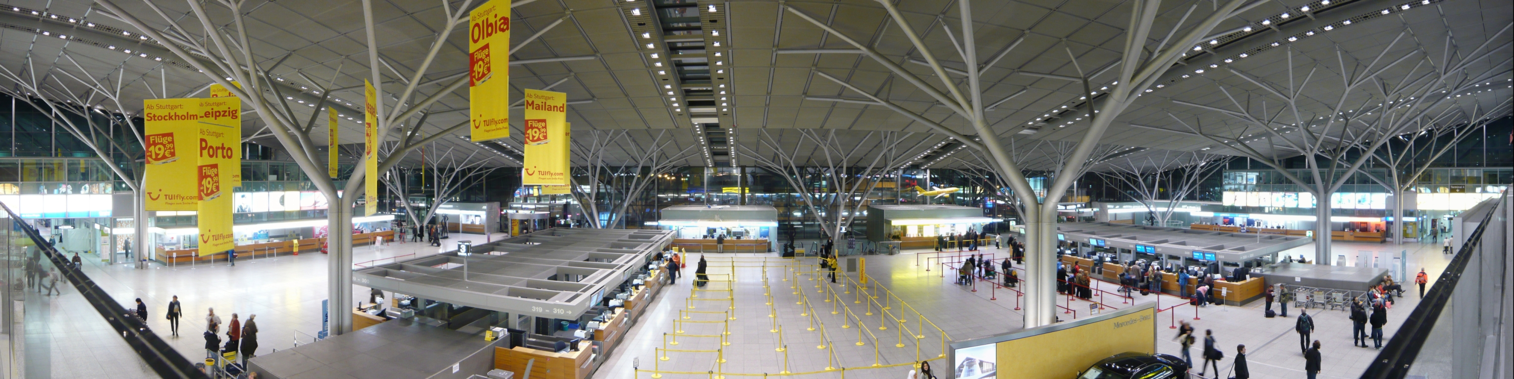 interior of Stuttgart Airport